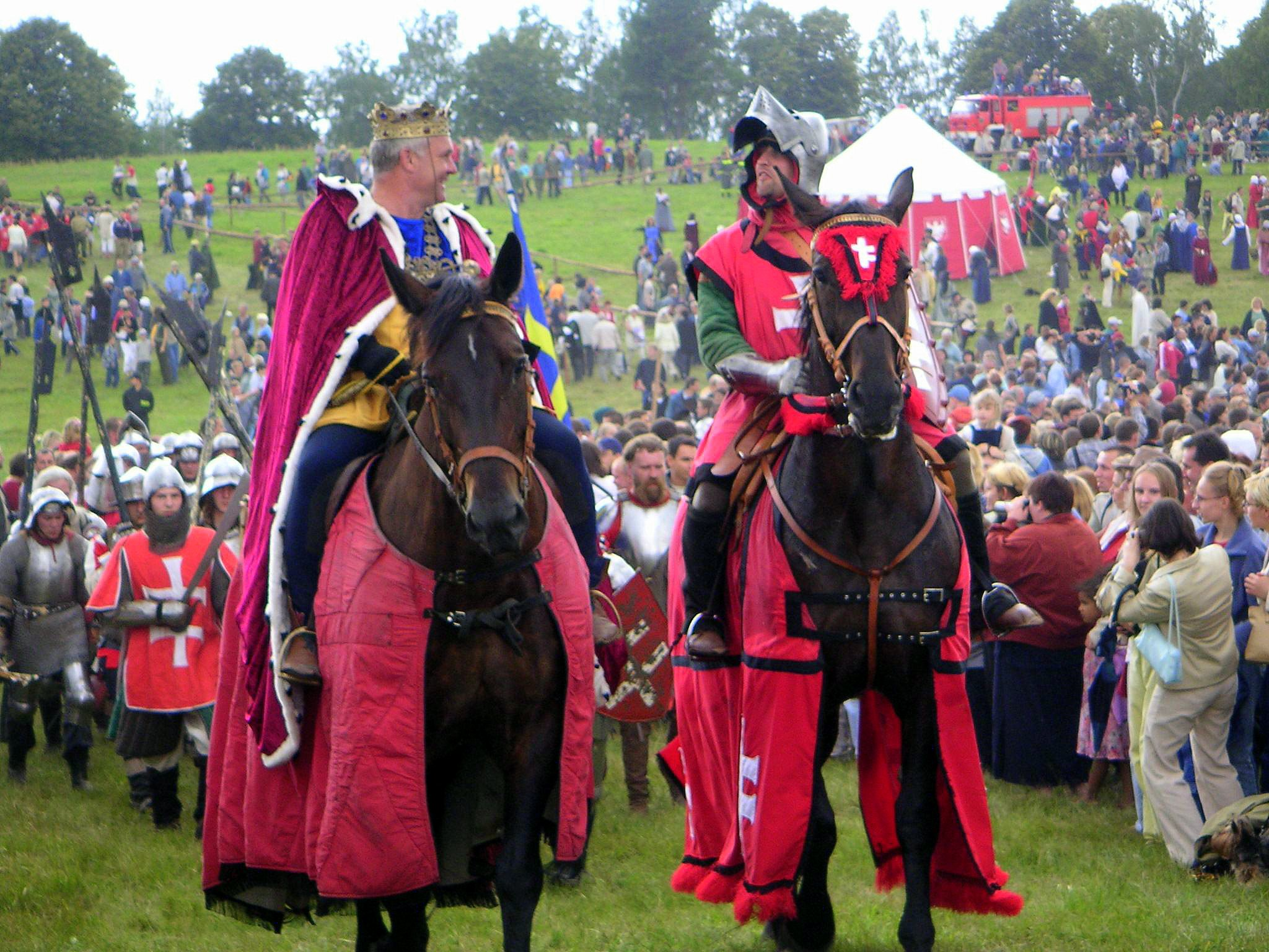 Battle of Grunwald reconstruction in 2003, Poland